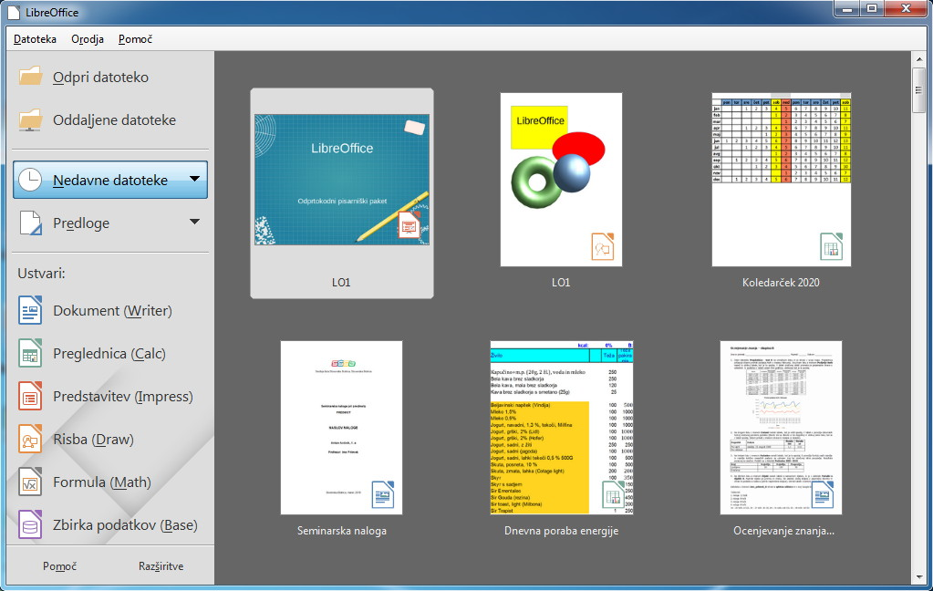 LibreOffice start center in Slovenian language